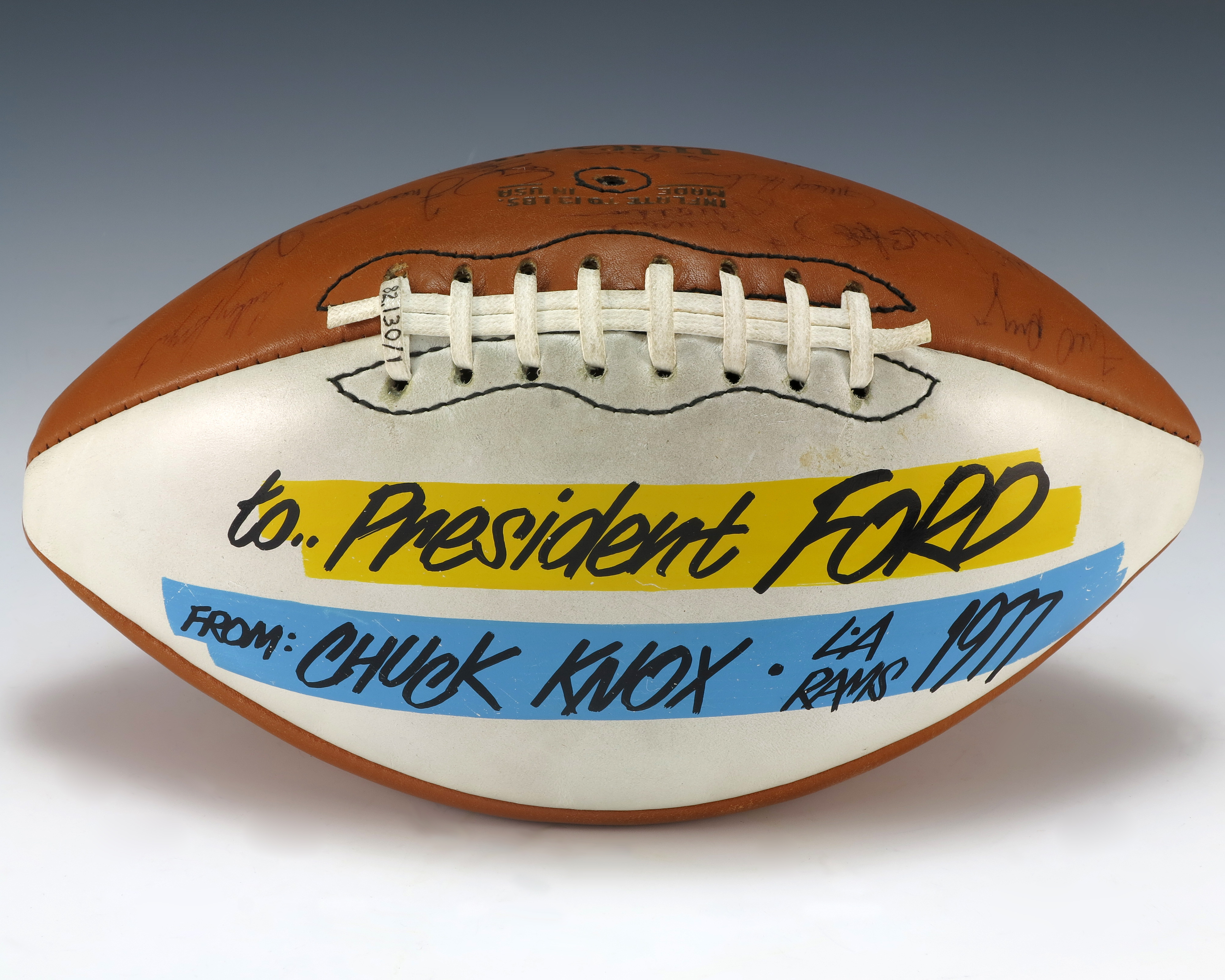 A leather football with one white and three brown panels. On the white panel in black, yellow and blue reads "to..President Ford / From Chuck Knox LA Rams 1977." The players of the 1977 team have signed the brown panels in ink pen. Popular autographs include Hall of Famers Tom Mack and Joe Namath; and players Pat Haden and Vince Ferragamo. The Ford's retired to Rancho Mirage, California in 1977 where Ford served on the Rams advisory board.